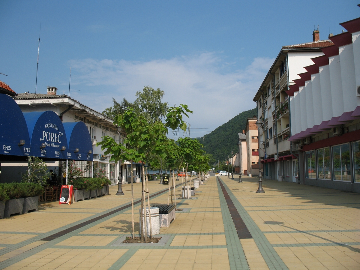 Pedestrian zone in Donji Milanovac on Danube in Serbia